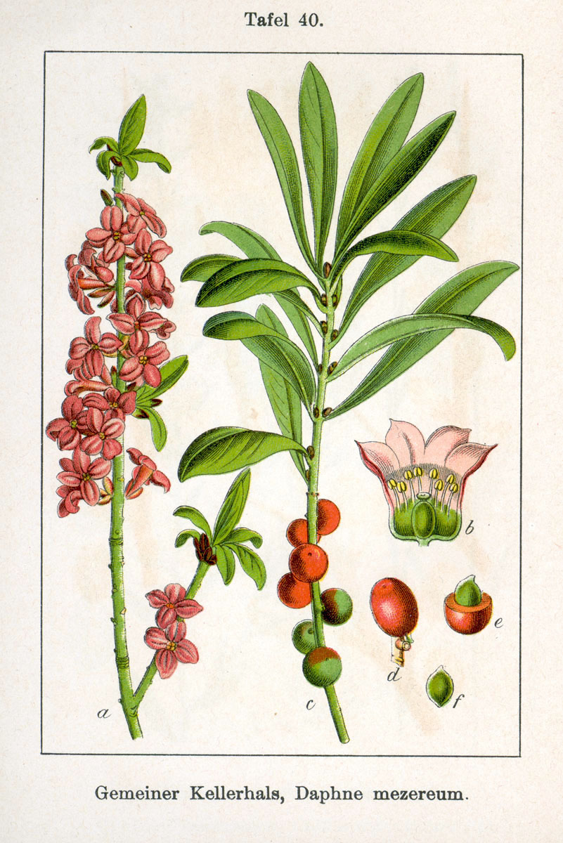 Daphne mezereum L. Original Description Gemeiner Kellerhals, Daphne mezereum